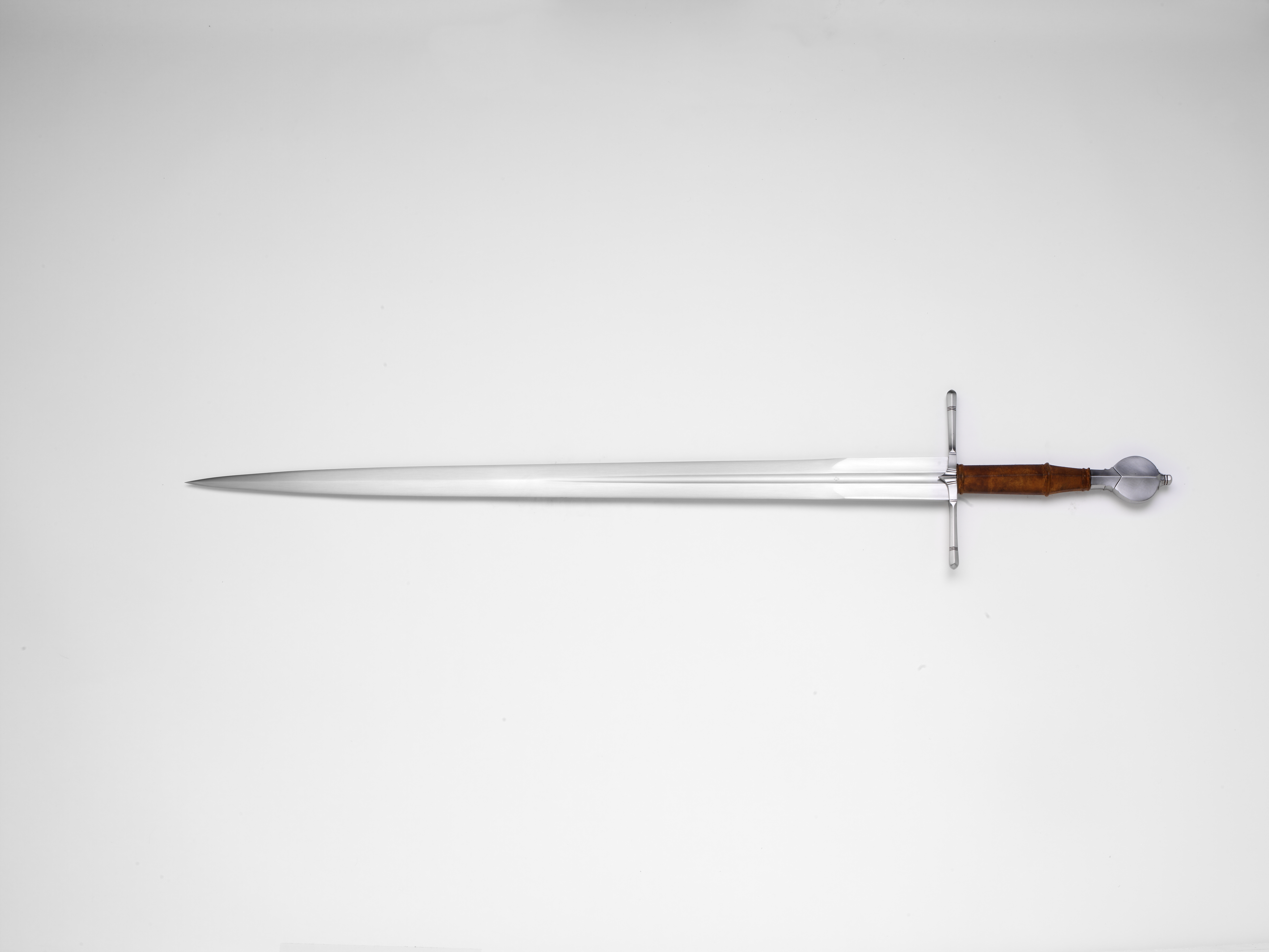 The Viceroy Limited Edition Medieval War Sword